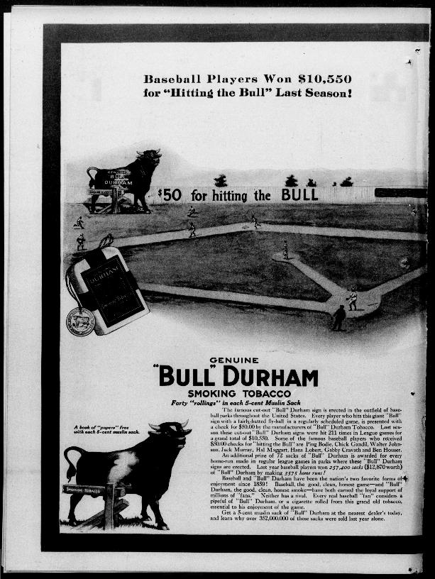 Full page newspaper advertisement for "Bull" Durham Smoking Tobacco, featuring information about their "Hitting the Bull" Campaign.